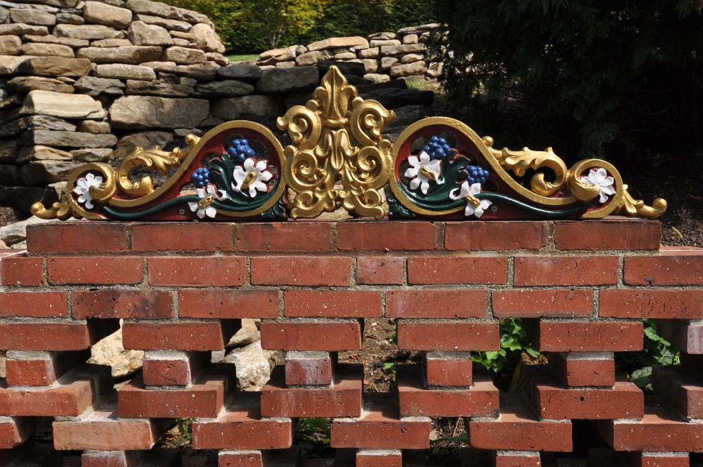 Naumkeag estate, Stockbridge, MA. Detail of a garden wall.